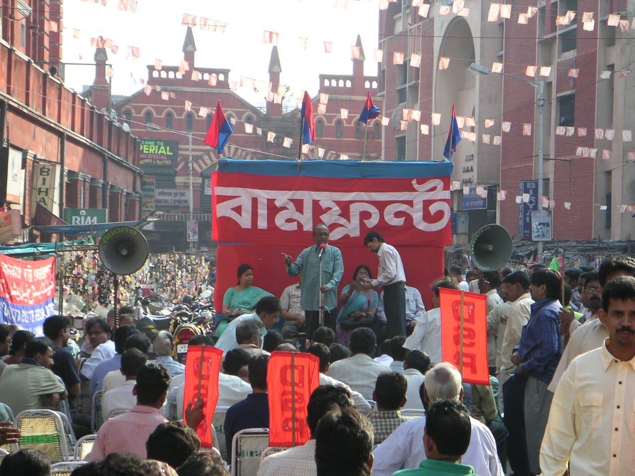 Democratic Socialist Party meeting in Kolkata, India. Photo: Soman